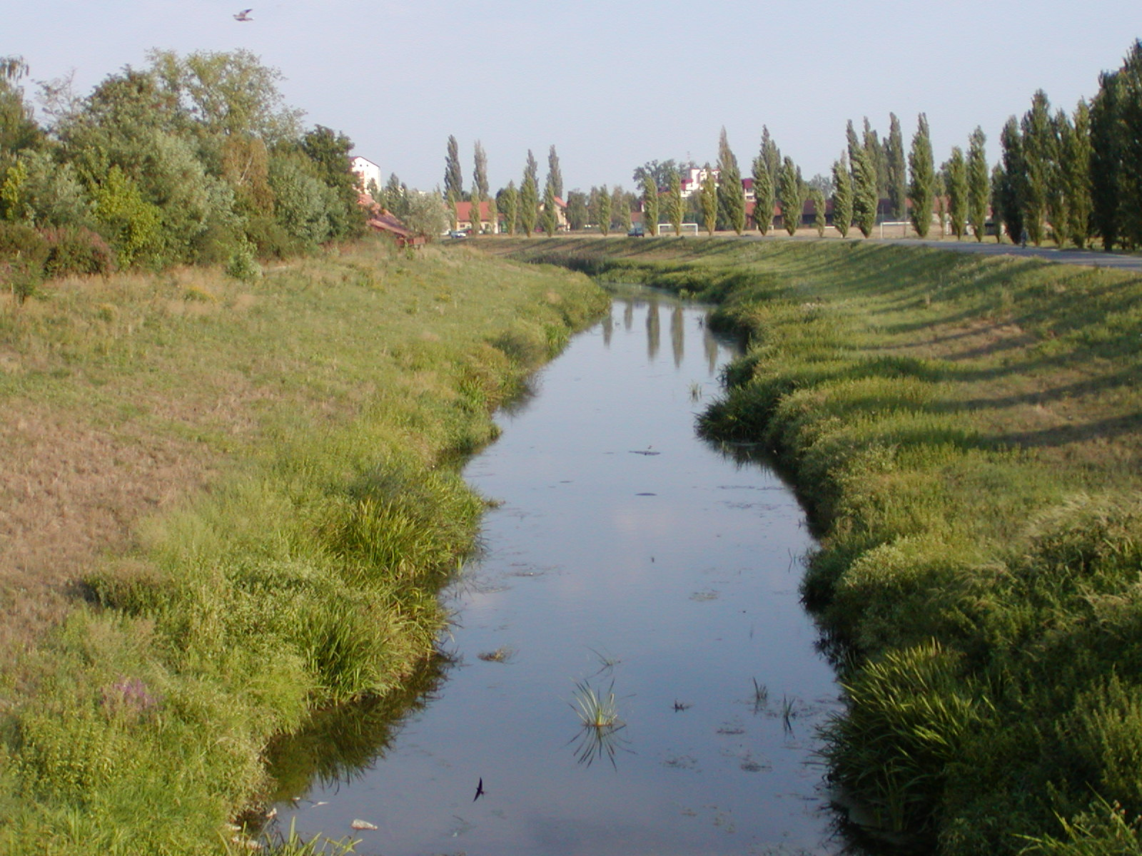 Ledava River in the town of Lendava